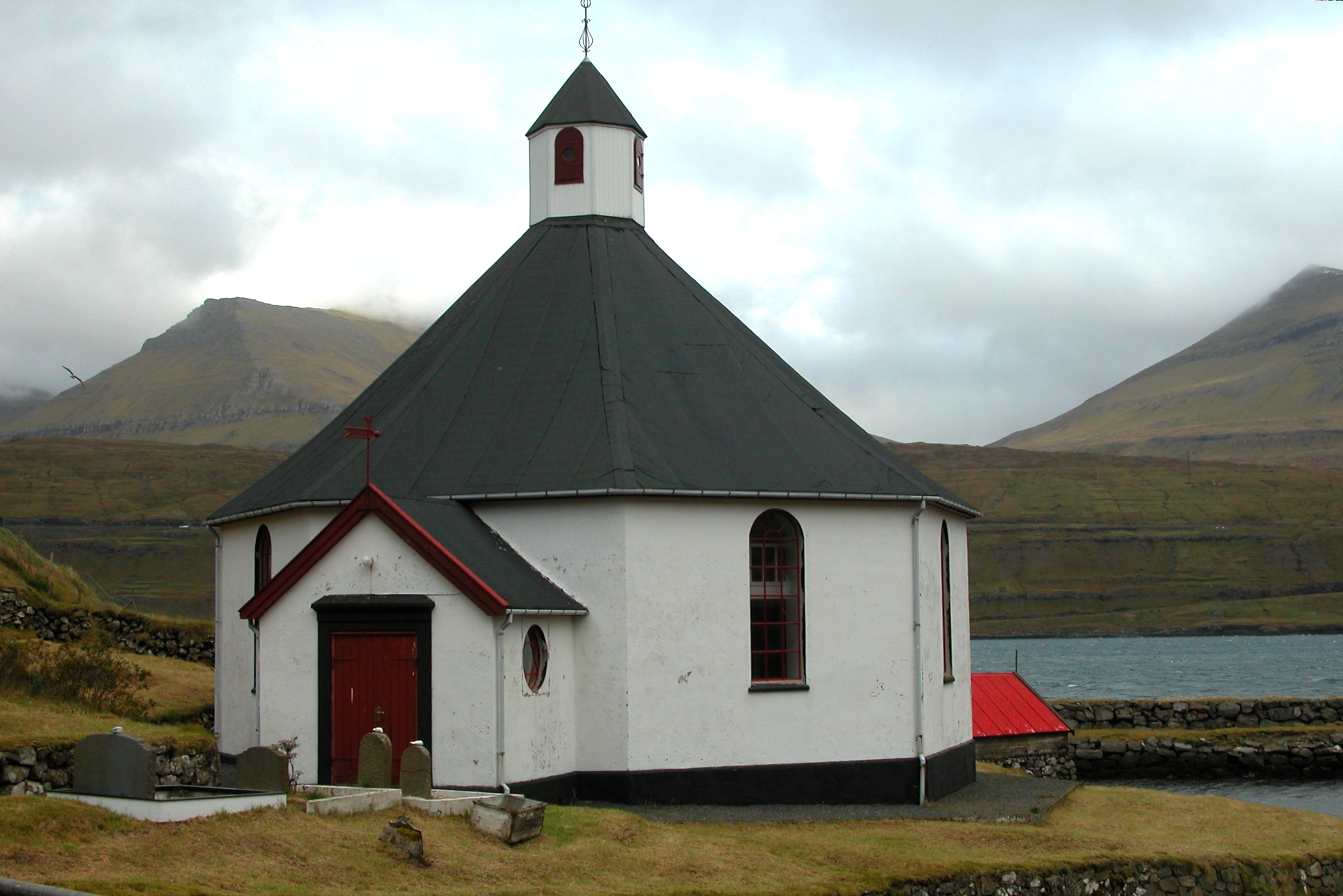 Church of Haldarsvík on Streymoy, Faroe Islands